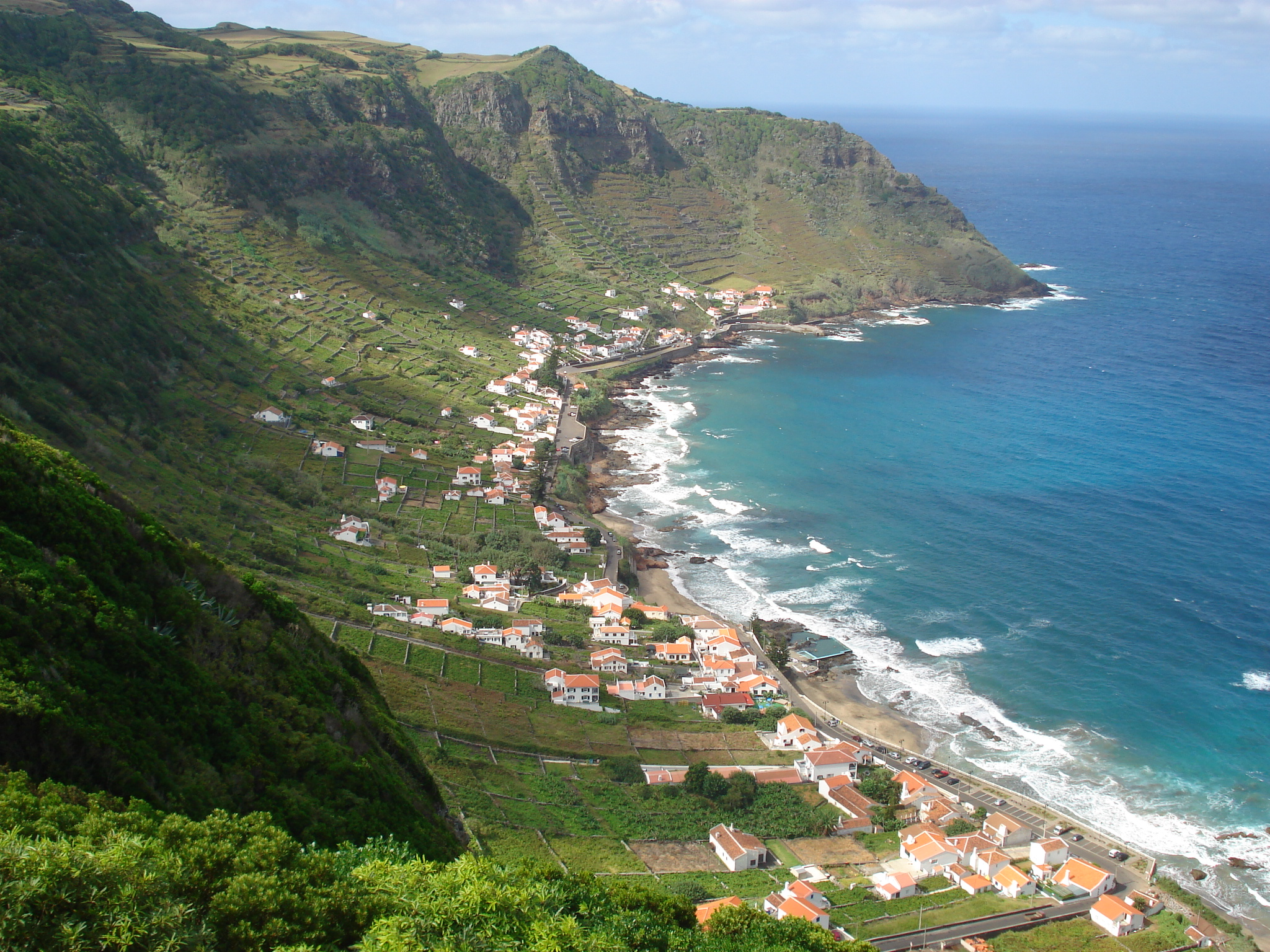 The bay of São Lourenço, in the parish of Santa Bárbara, Santa Maria Island, Azores